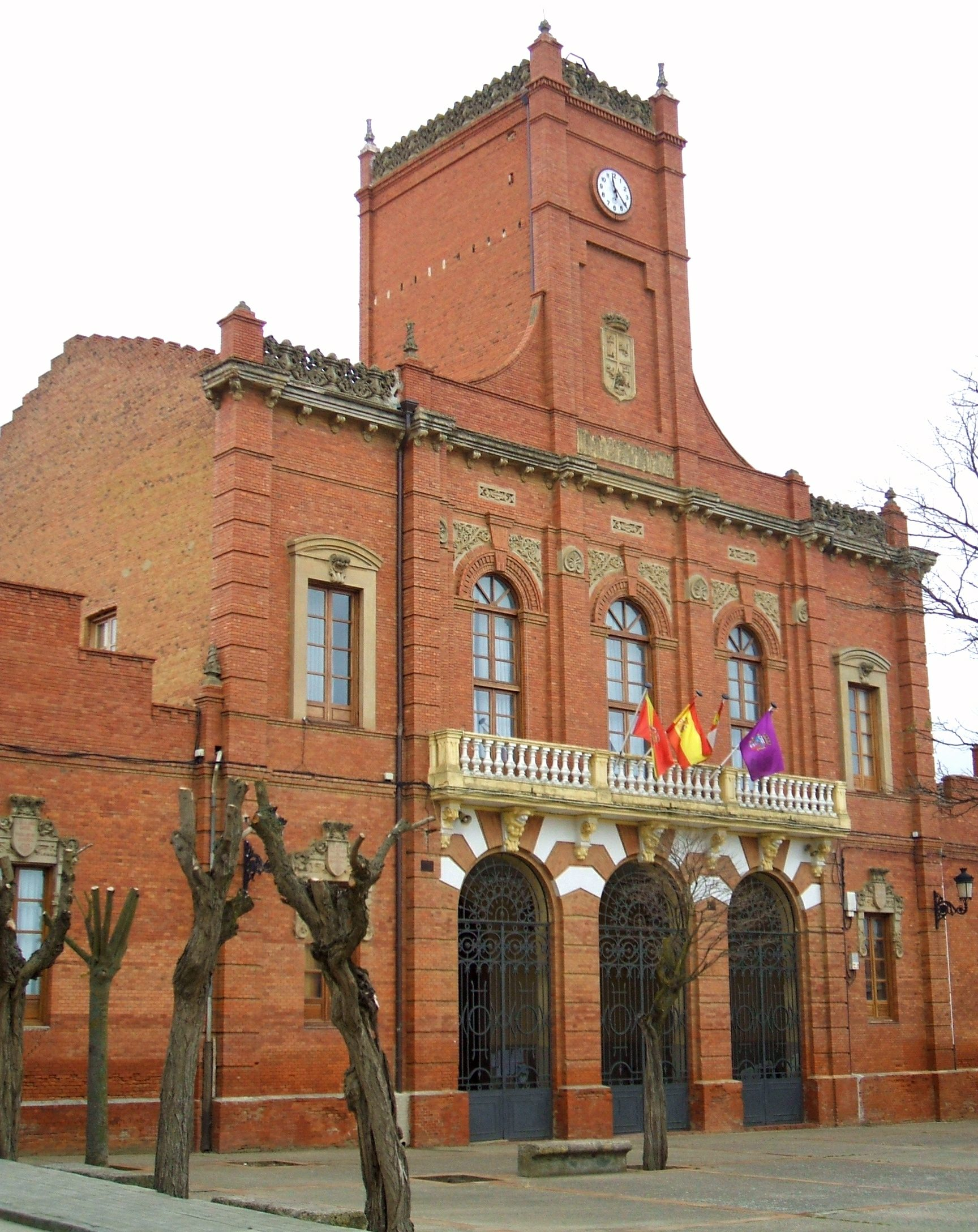 Ayuntamiento de Becerril de Campos